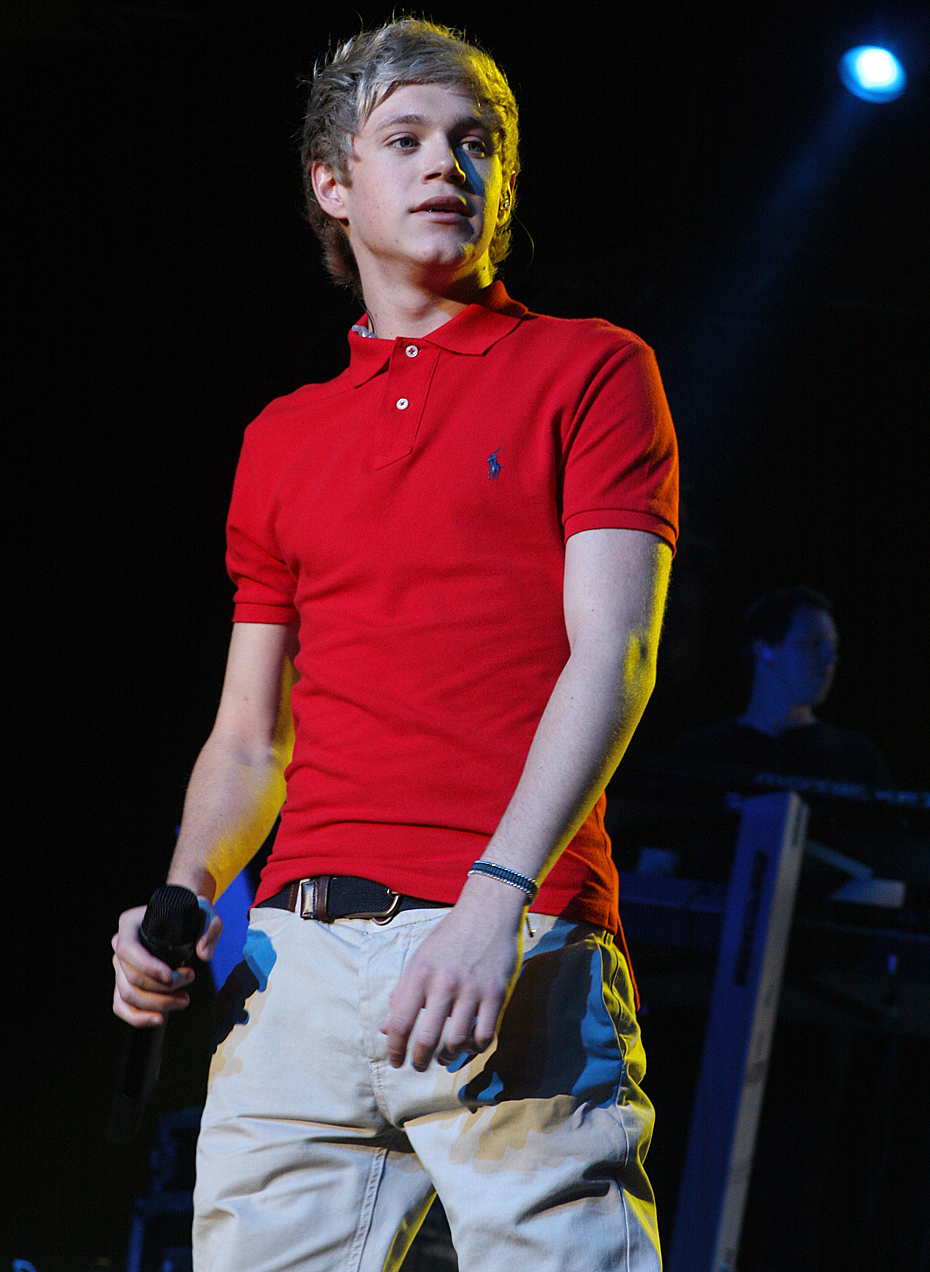 Niall Horan at the One Direction performs at Hordern Pavilion, Moore Park, Sydney, Australia 2012.